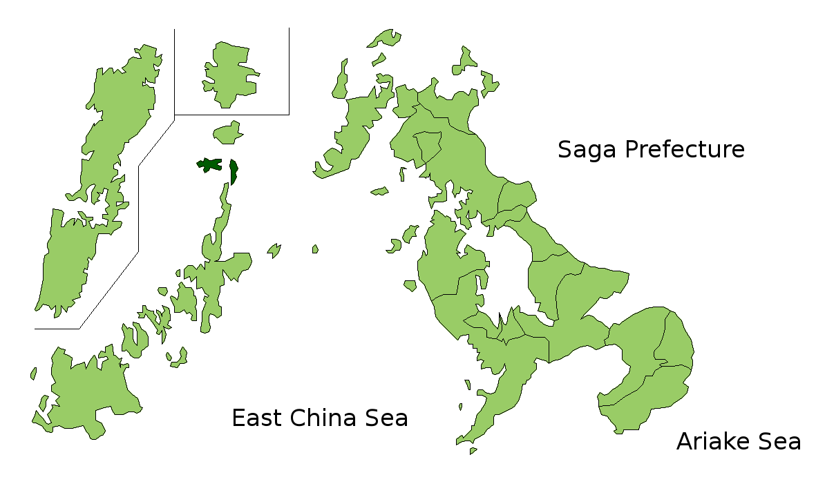 The location of Ojika in Nagasaki Prefectuur, Japan